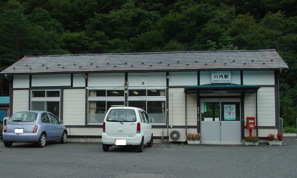 Kawauchi Station. East Japan Railway Co.